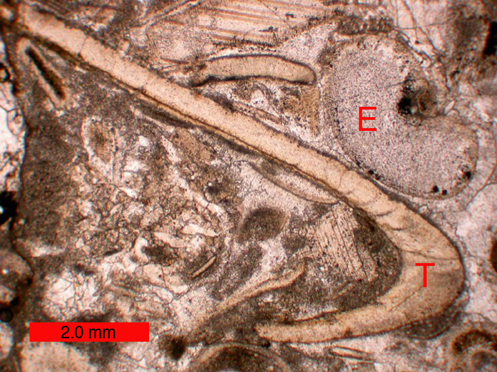 Bioclasts in an Ordovician limestone; T = trilobite; E = echinoderm. Scale bar is 2.0 mm.